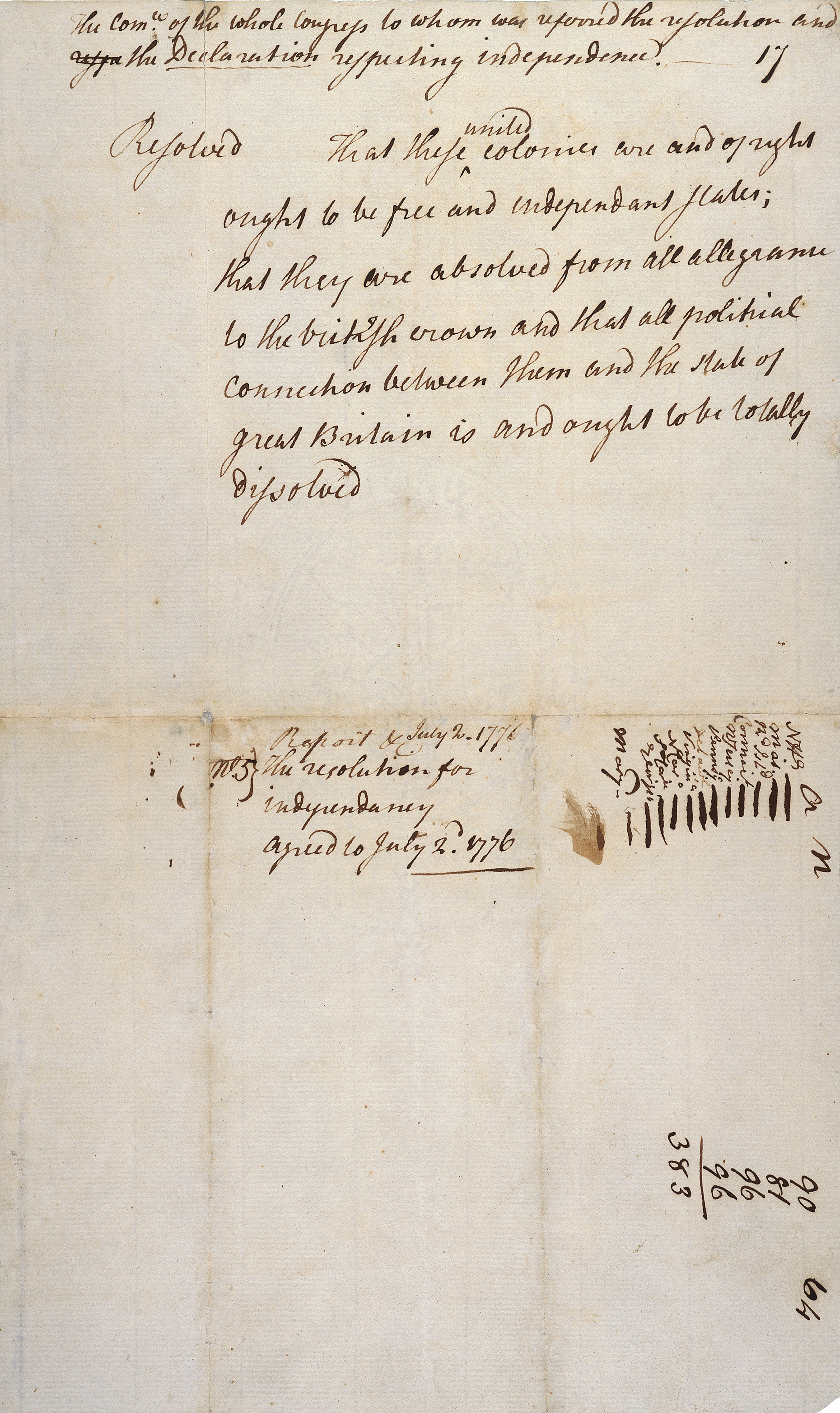 The Lee Resolution.